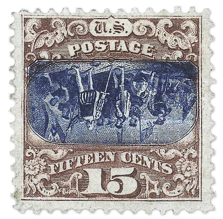 15cents inverted